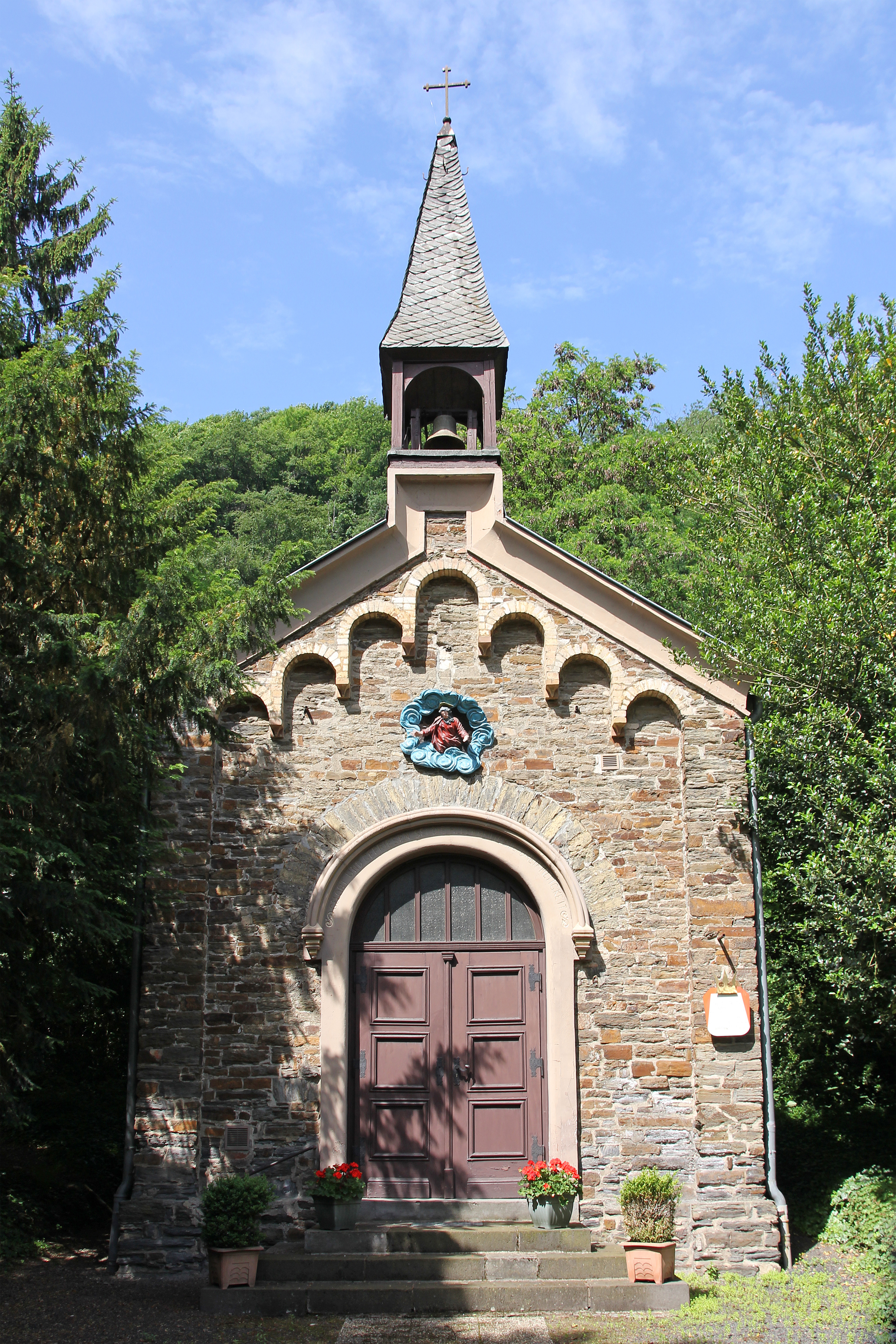 Trinity chapel in Koblenz